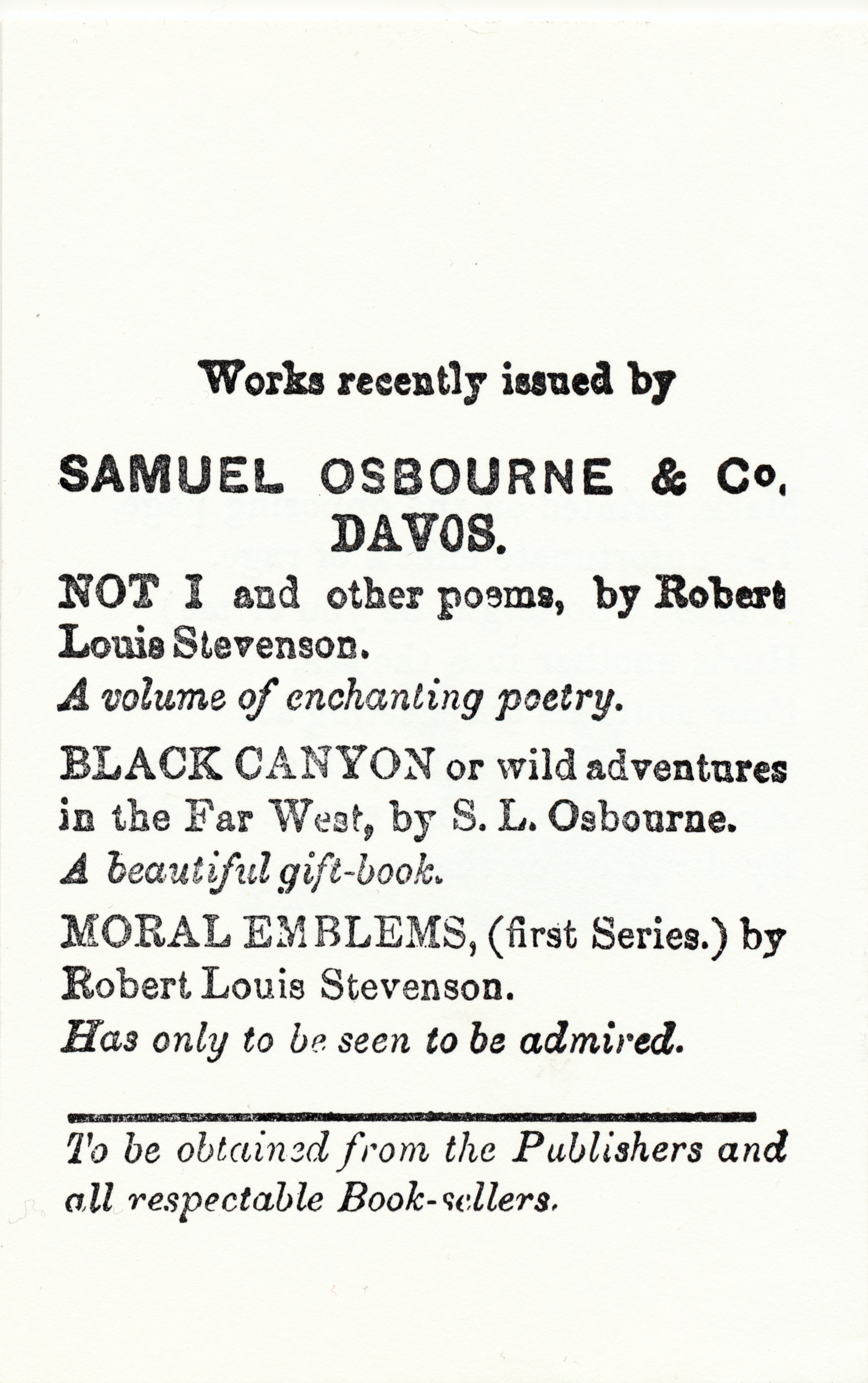 Last page of Moral Emblems by Robert Louis Stevenson printed and published by Lloyd Osbourne in Davos.